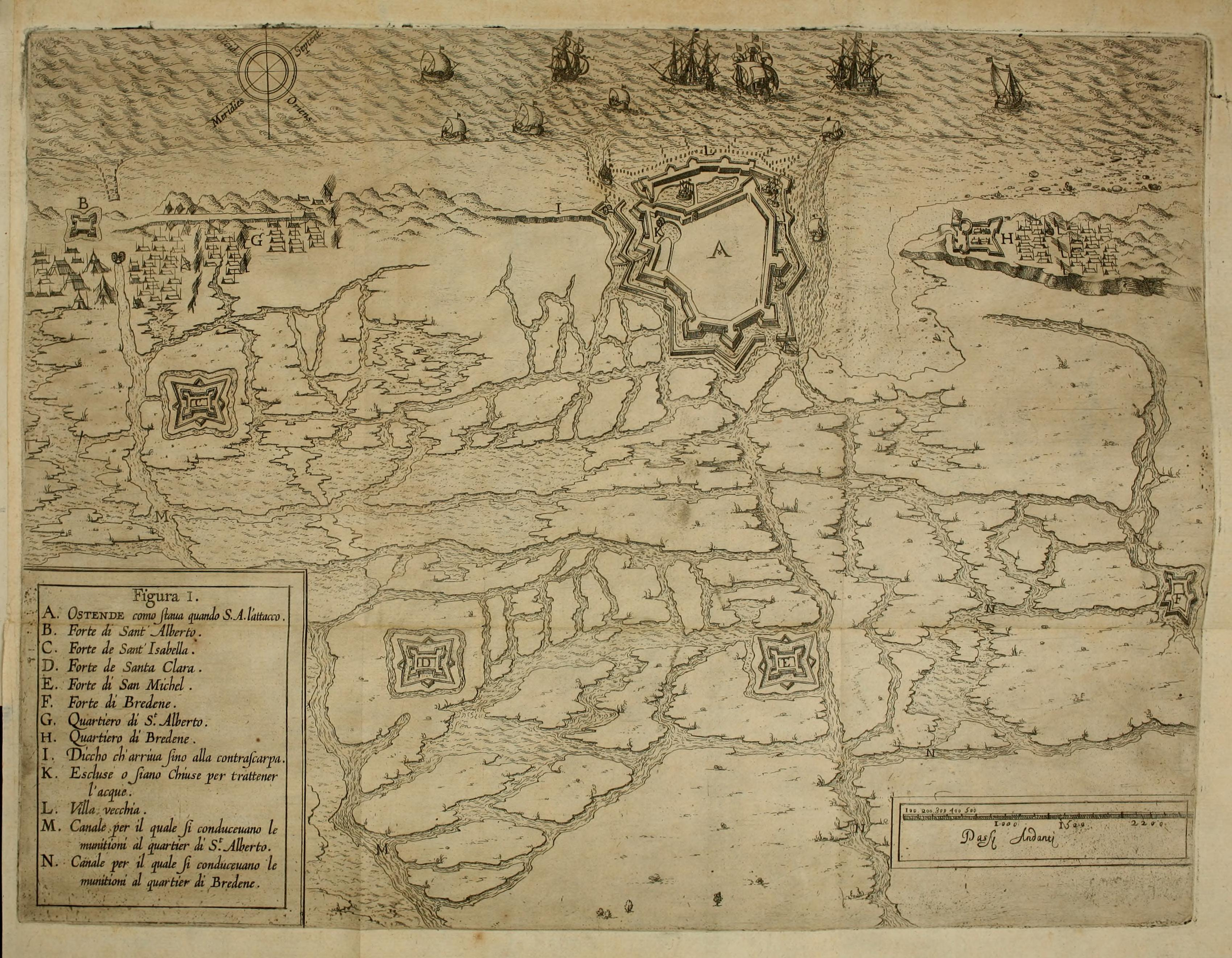 Map of Ostend 1601, from Delle guerre di Fiandra libri VI, by Pompeo Giustiniano, 1606